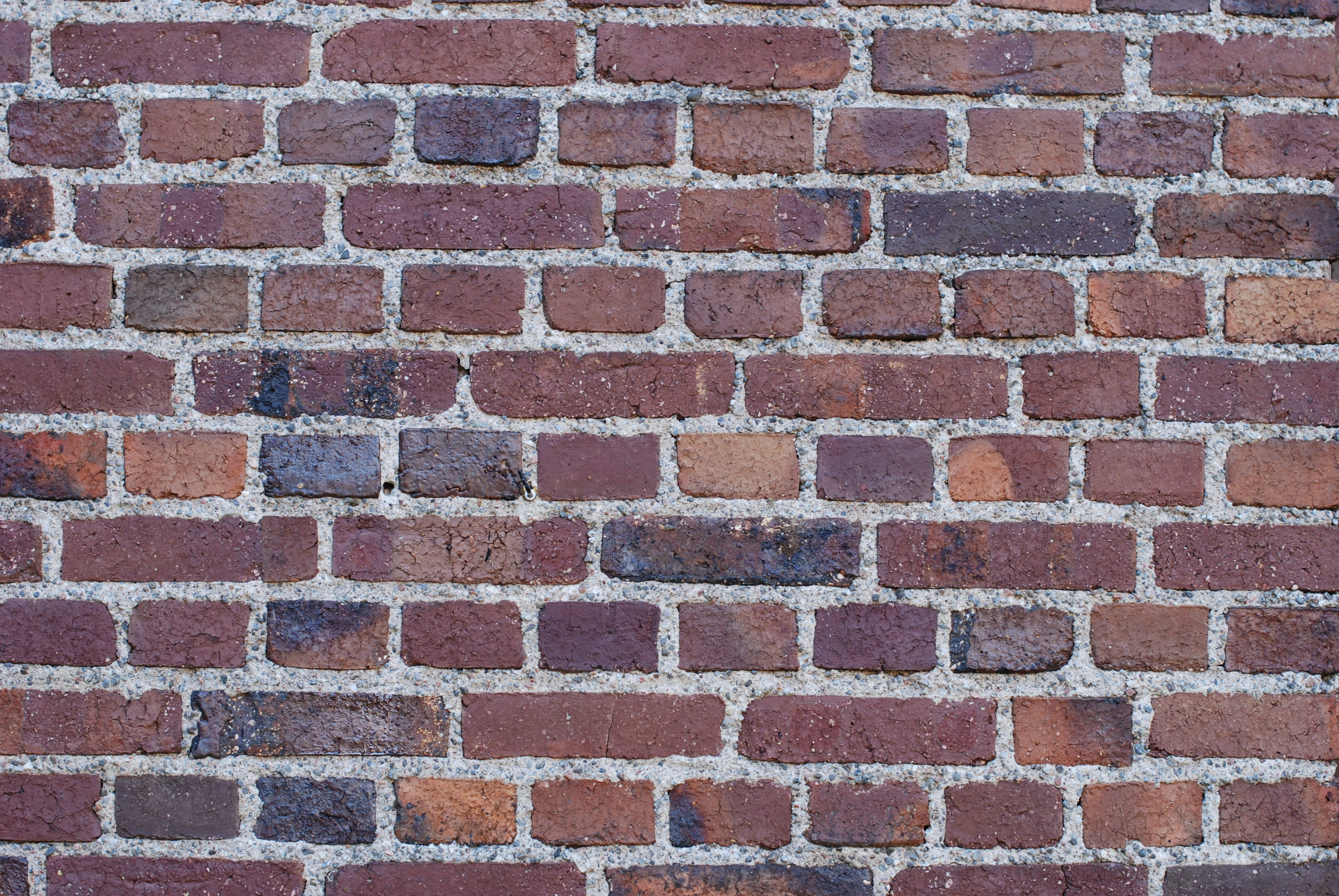 Hard burned Swedish clay bricks (Helsingborg bricks),. S:t Thomas Church, Vällingby, Stockholm